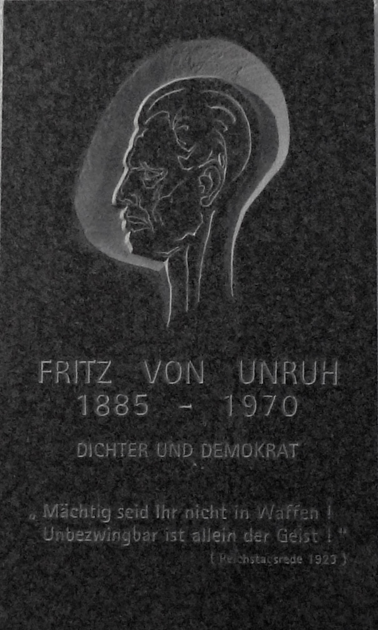 Plaque: Fritz von Unruh. Eberhardshaus in Diez/LAHN (Germany)